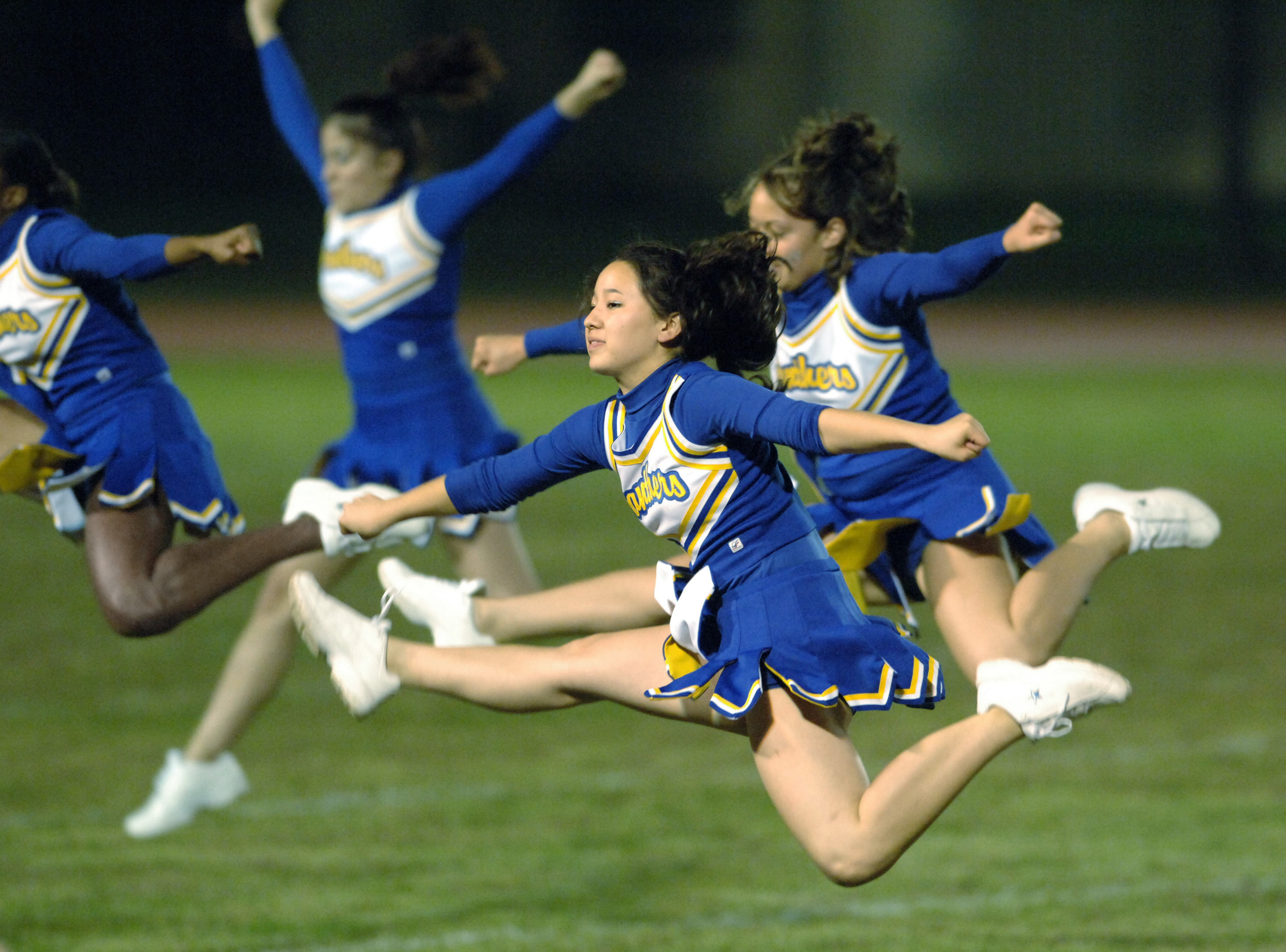 YOKOTA AIR BASE, Japan (AFPN) -- Jennifer Higuchi, foreground, and her teammates from Yokota High School cheer during half time of the Panther's "homecoming" football game here. The Panthers beat Edgren High School from Misawa Air Base, Japan, 52-0.